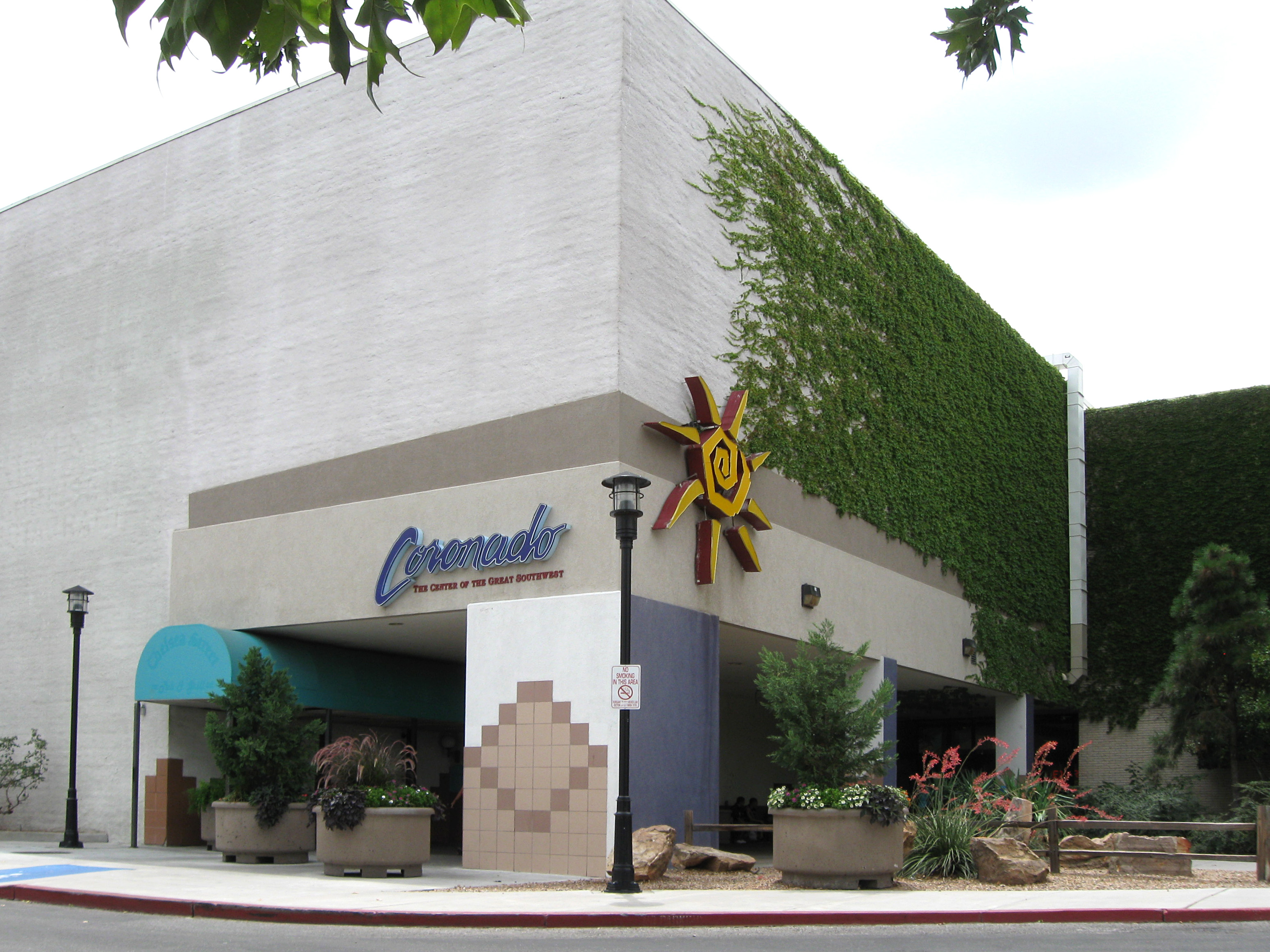 Coronado Center, a shopping mall located at 6600 Menaul NE in Albuquerque, New Mexico. Northwest entrance by the food court.